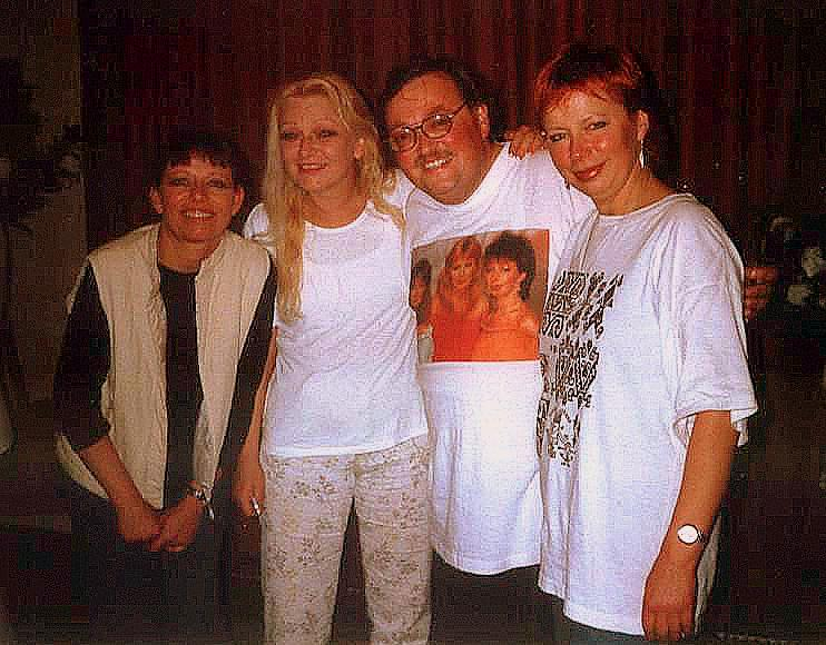 Colored photograph of Toni Willé and her sisters taken with a fan in 2001 at Winterswijk (Netherland).